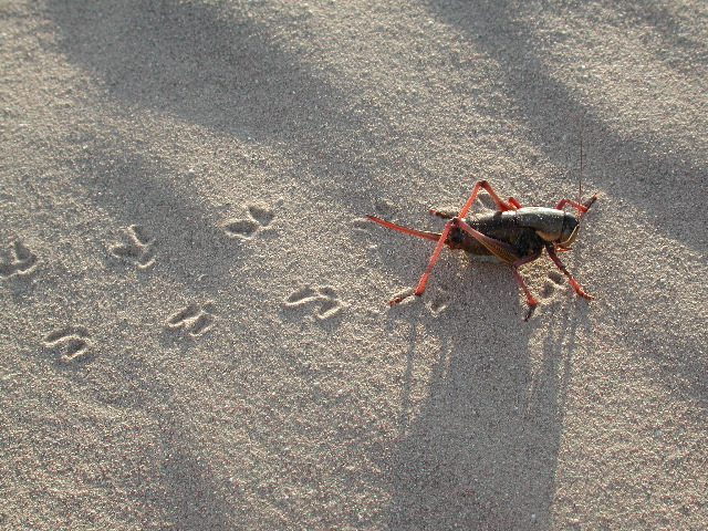 Anabrus simplex from the dunefields of the western US.